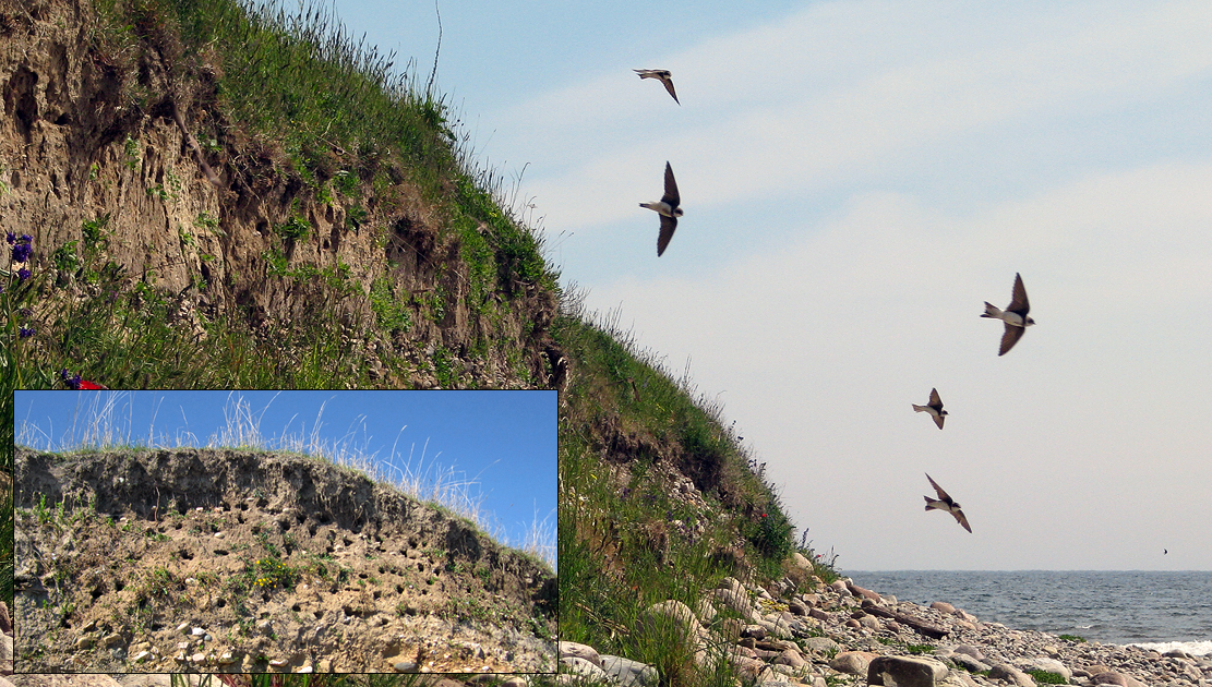 Sand martin. (Riparia riparia) Kåseberga Sweden.